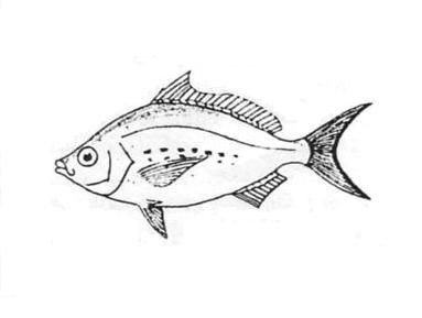 Gerres_acinaces syn. of Gerres longirostris (Lacepède, 1801)